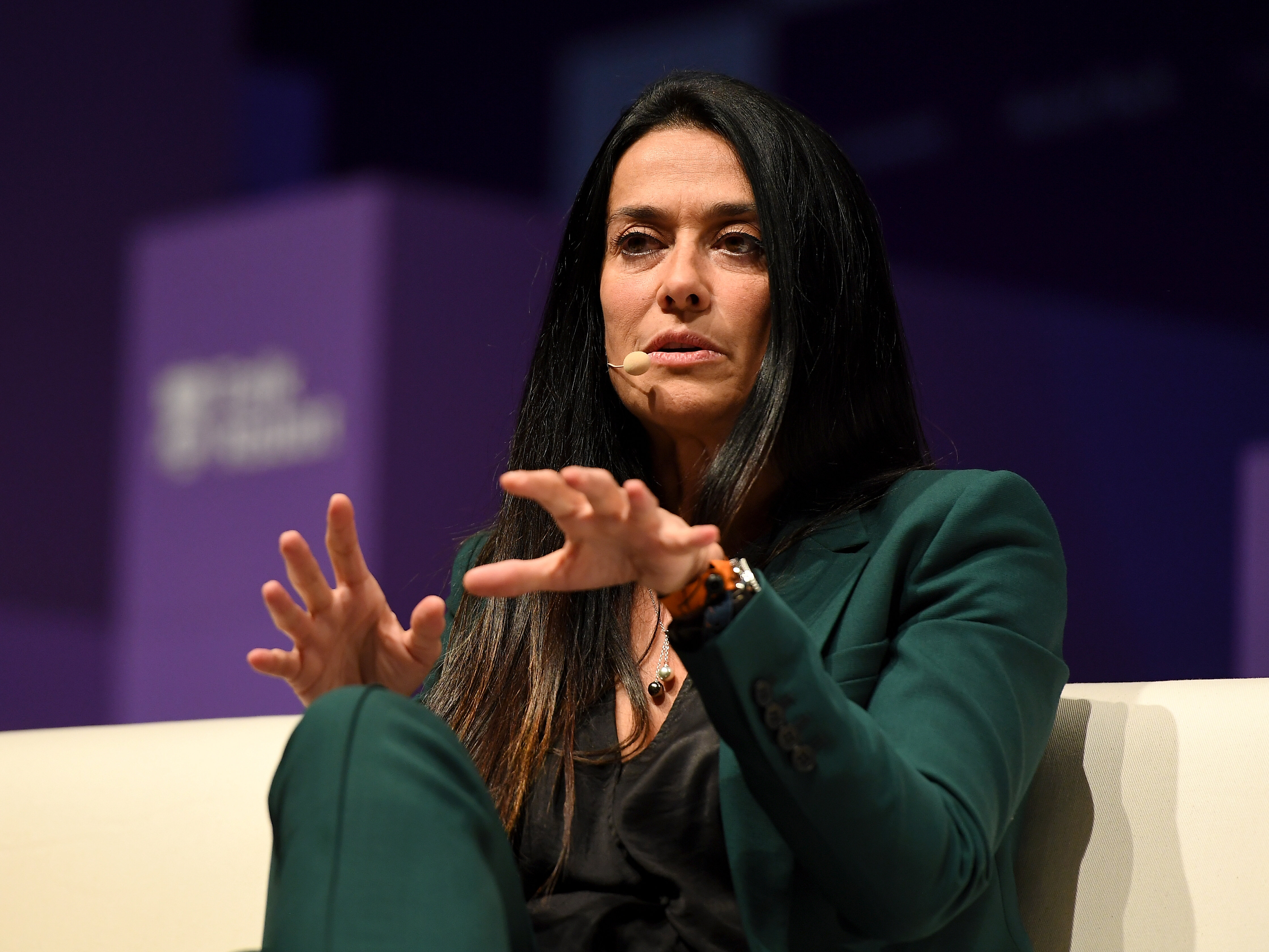 8 November 2018; Grazia Vittadini, CTO, Airbus on Auto/Tech & TalkRobot Stage during day three of Web Summit 2018 at the Altice Arena in Lisbon, Portugal. Photo by Harry Murphy/Web Summit via Sportsfile